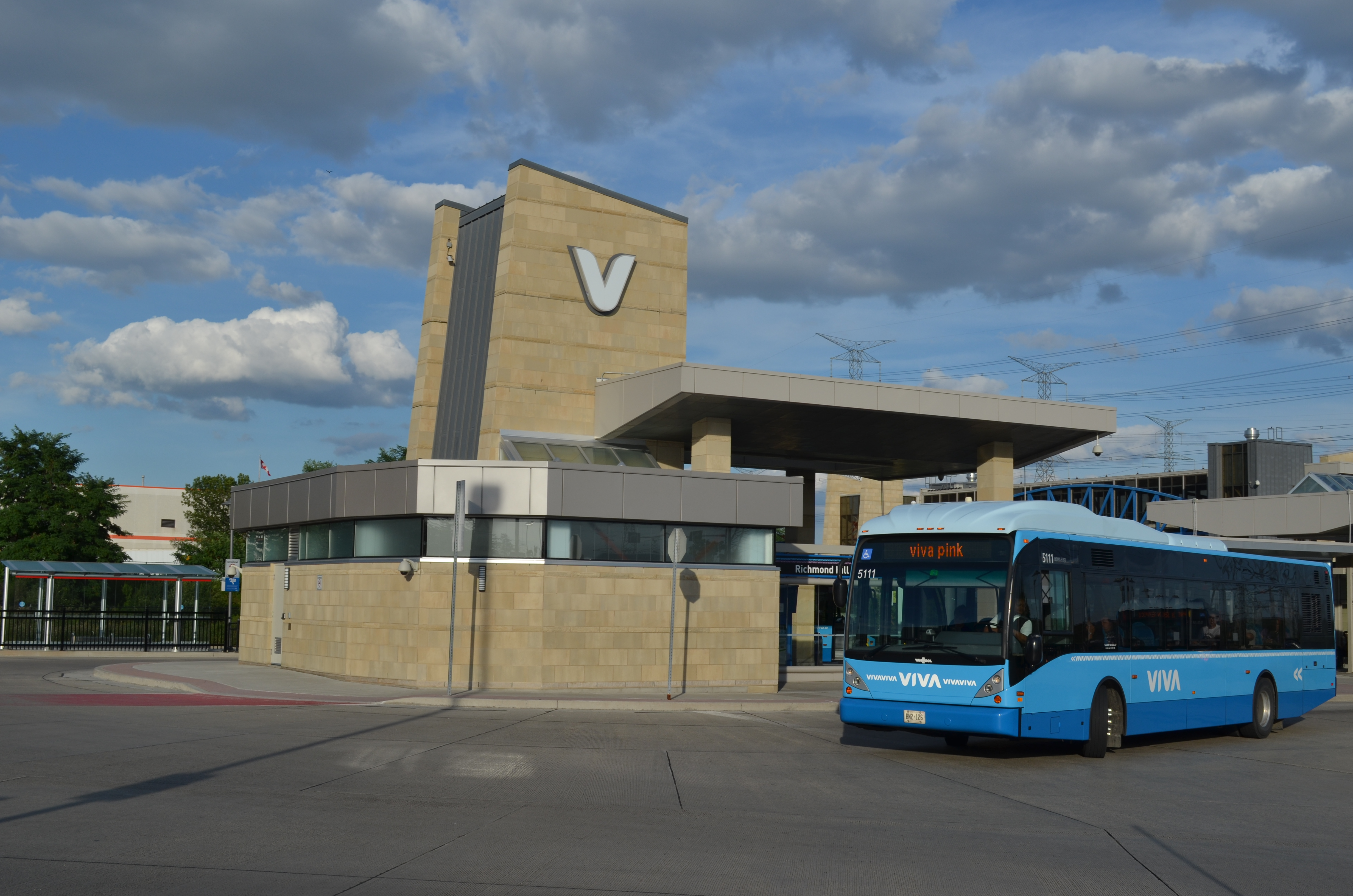 Richmond Hill Centre Terminal